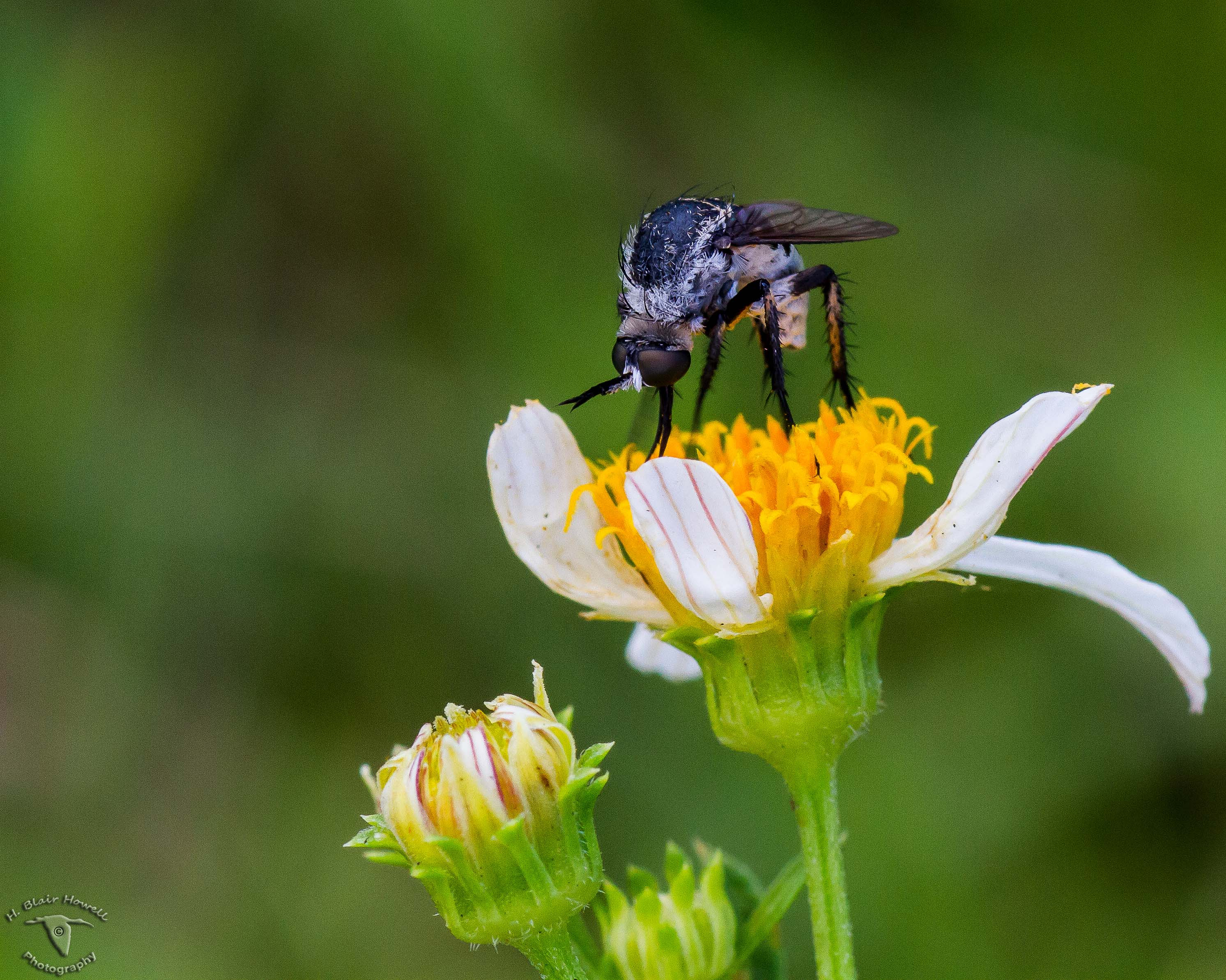 Taken near Kissimmee in Central Florida